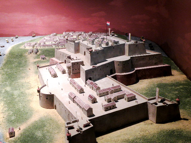 the model of Zeelandia, Tainan, Taiwan in the Museum of Zeelandia.